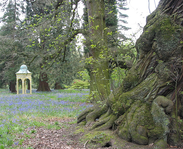 Ornamental structure in woodland walk, Capesthorne Hall